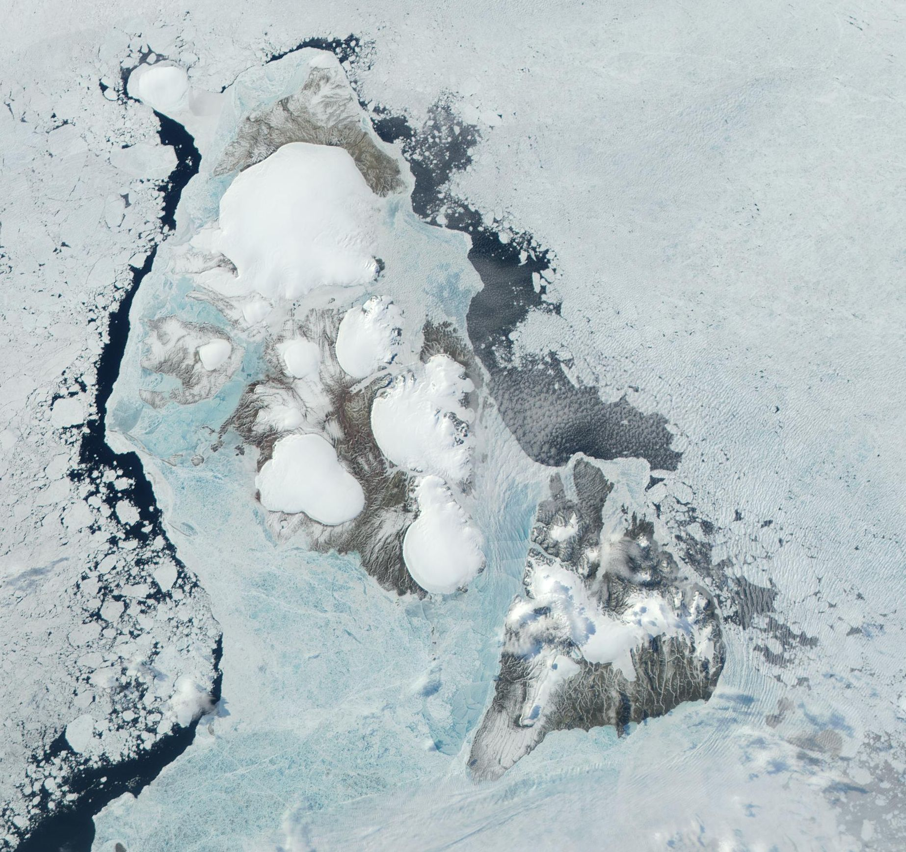 Terra MODIS image of Severnaya Zemlya archipelago, Arctic Ocean